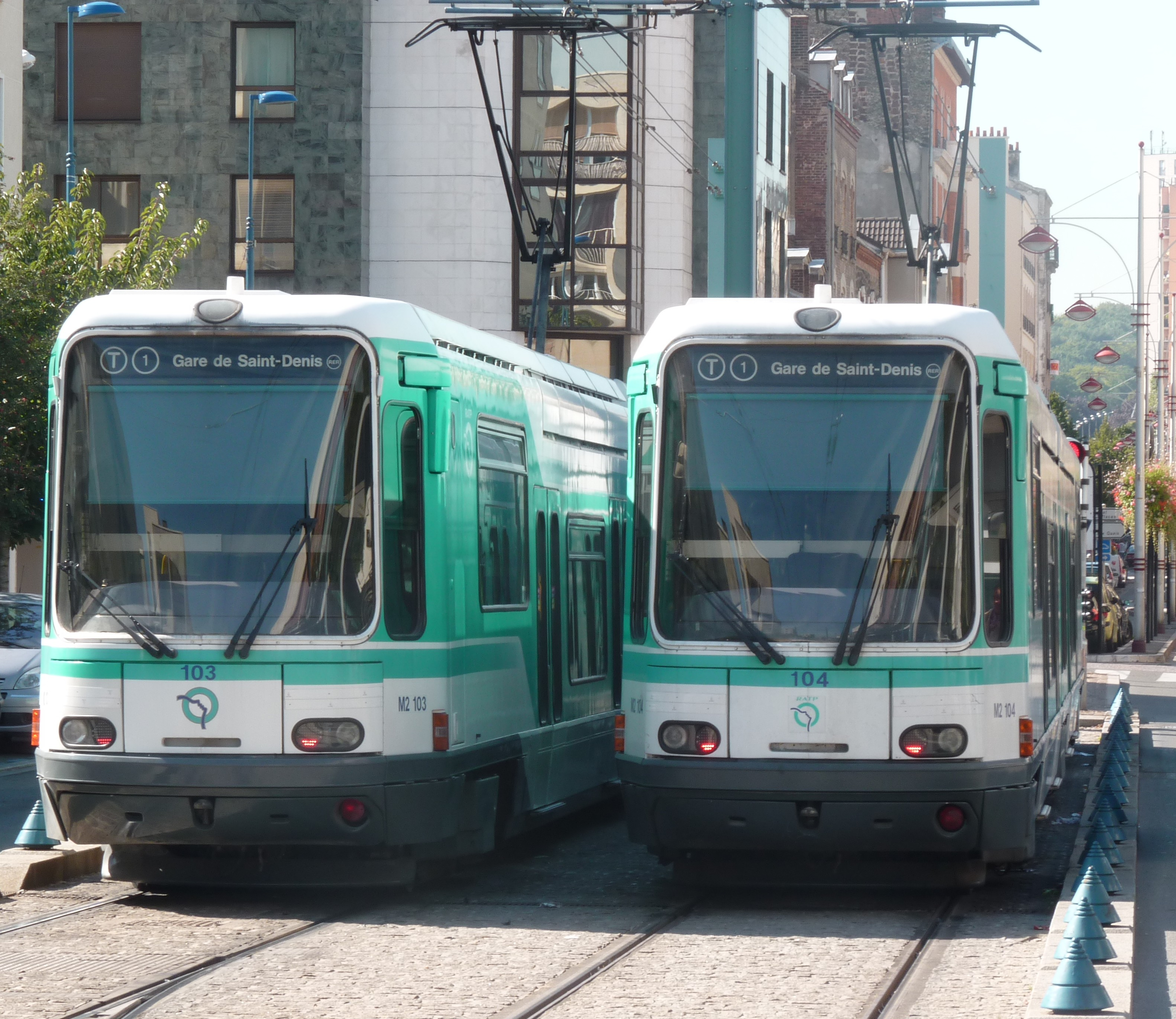 Two tramways français standard at Noisy-le-Sec station.